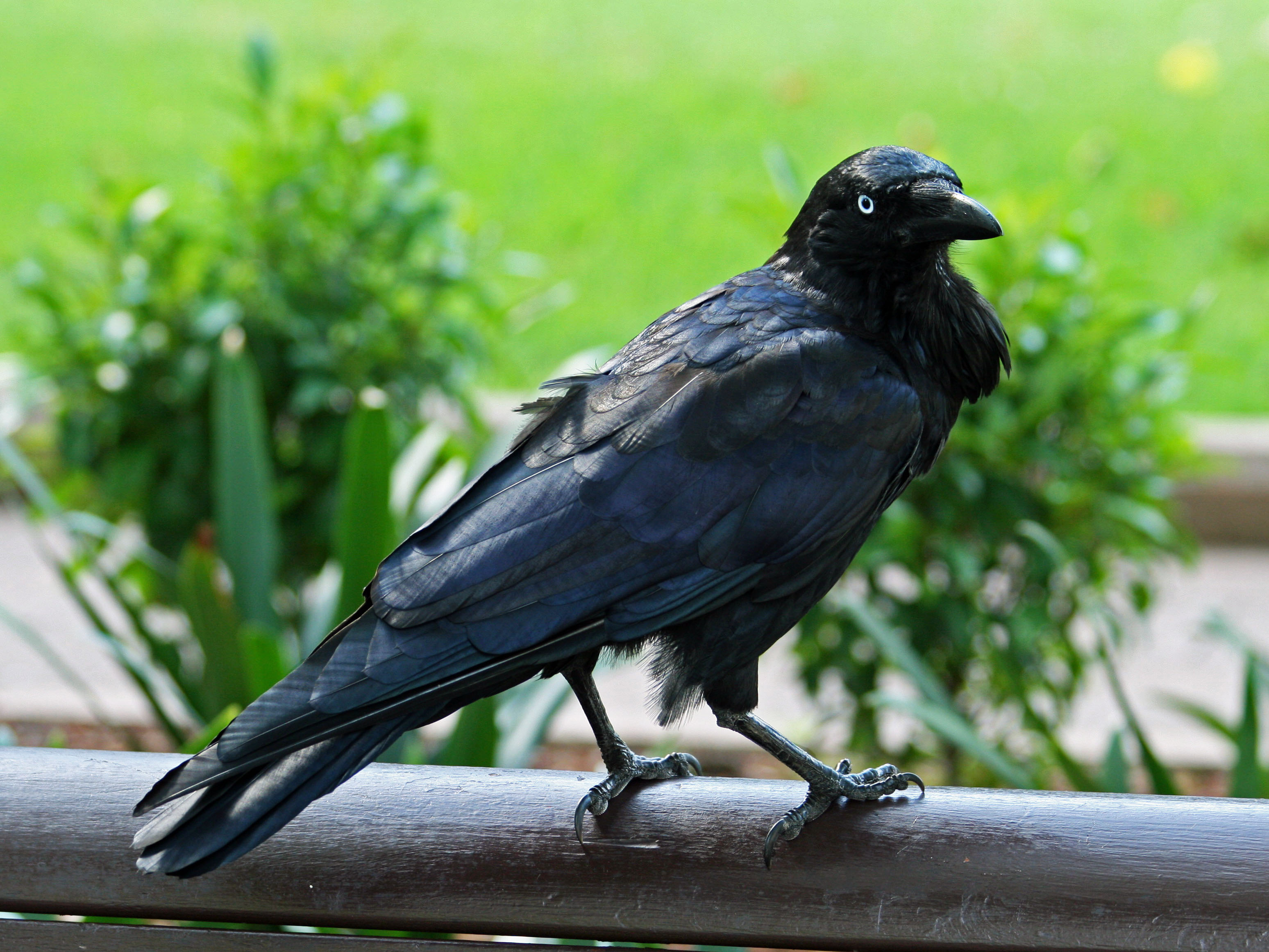 Australian Raven (Corvus coronoides) - Sydney, Australia